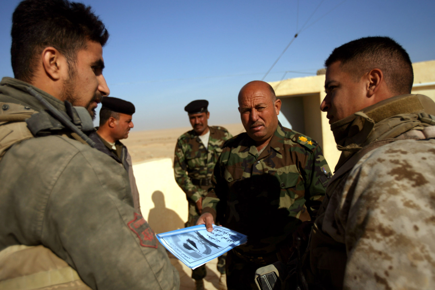 Sgt. Julian Bejarano, a 28-year-old section leader with Combined Anti-Armor Team Red, Weapons Company, Task Force 3rd Battalion, 7th Marine Regiment, Regimental Combat Team 5, talks to Lt. Col. Hamid Kniyaf, battalion executive officer for the Iraqi border guards, about future training operations between the two elements in western al-Anbar province, Iraq, Dec. 18. The CAAT Marines plan to conduct training with the guards along the Iraqi and Syrian border to keep insurgents from crossing over the border.